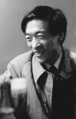 Junnosuke Yoshiyuki (1924–1994)